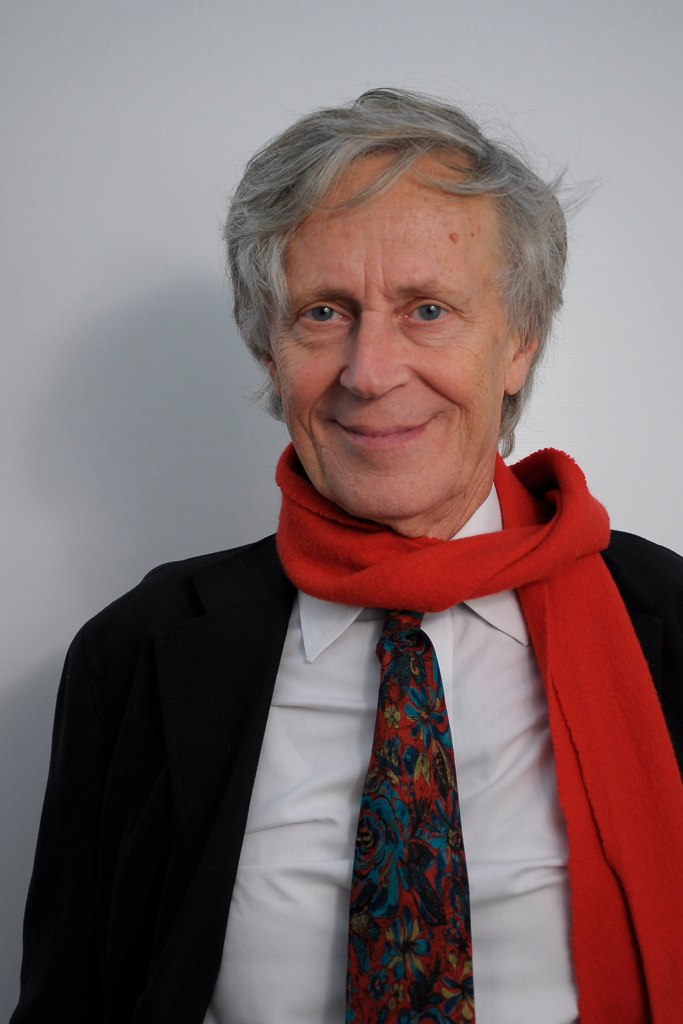 Belgian Canadian sociologist Derrick de Kerckhove. This picture was taken in Genoa, Italy, at the 2011 Festival della Scienza.